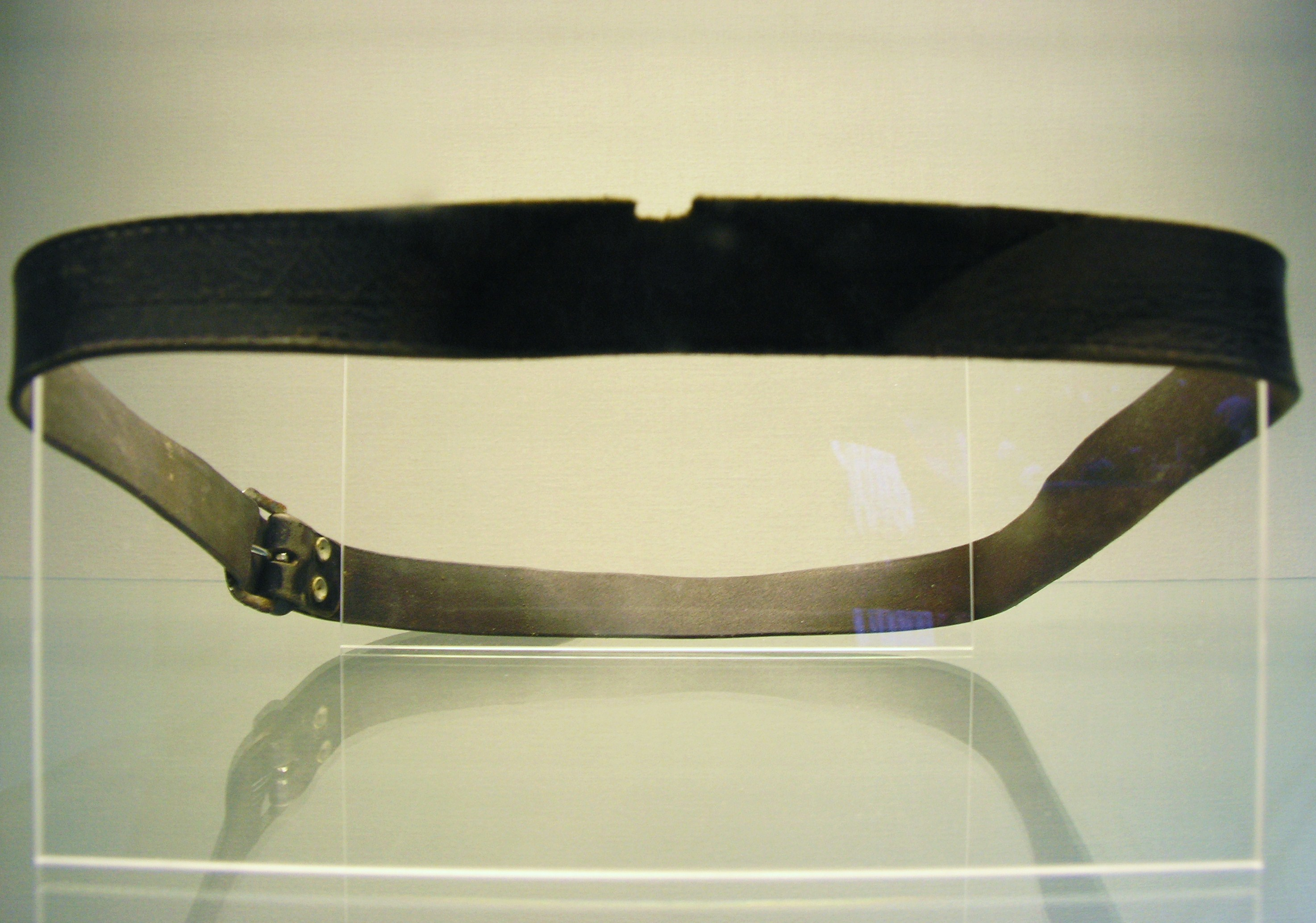 Belt worn by Patrick Doherty during Bloody Sunday. It shows a nick from a bullet that killed him.